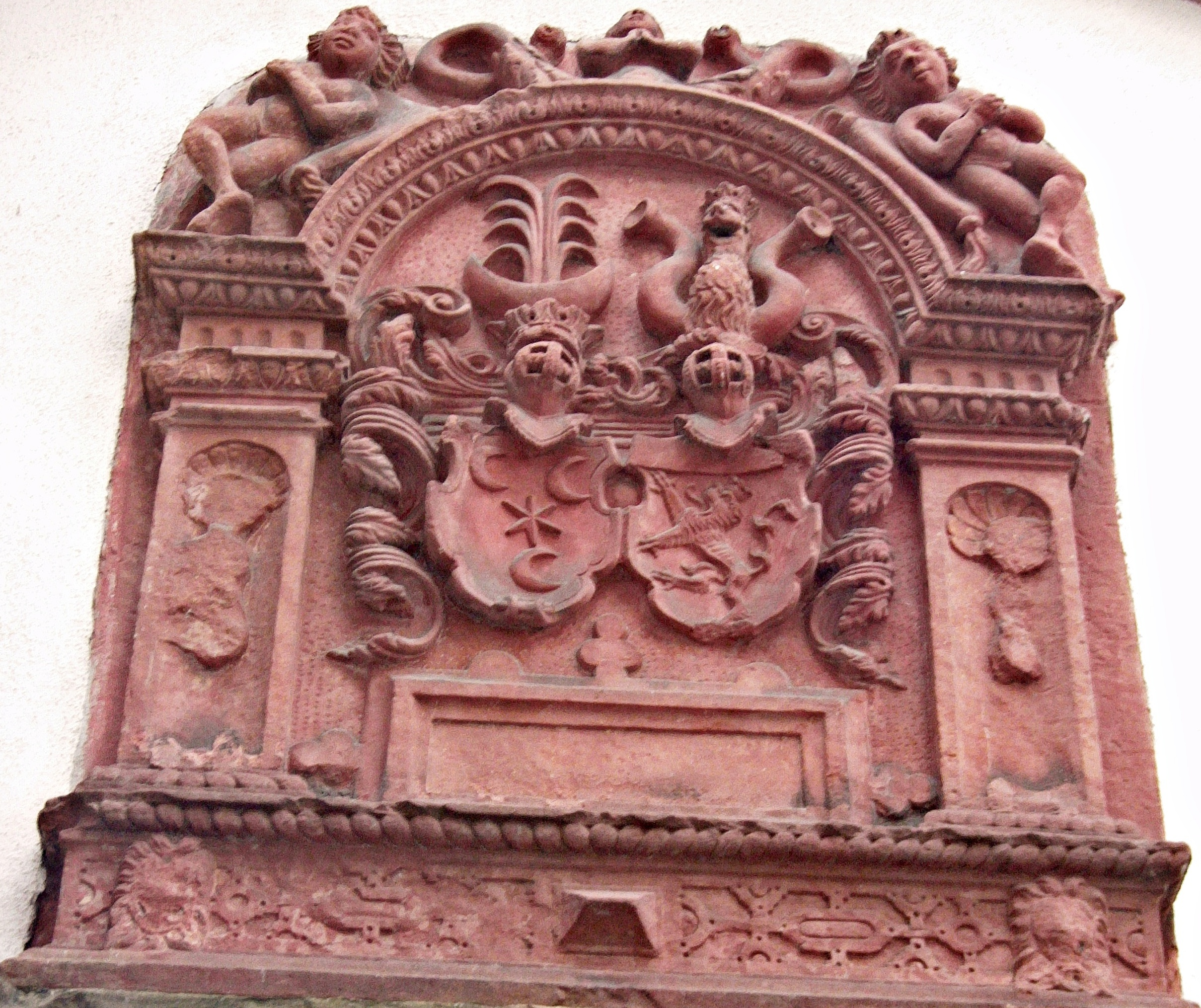 St. Martin, Altes Schlösschen, Allianzwappen Hund von Saulheim und Dienheim, 1592